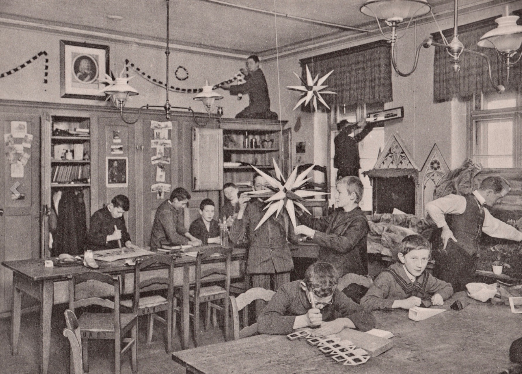 New boarding school building of Herrnhuter Brüdergemeine (= Moravian Church) in Niesky, Upper Lusatia, Germany. The picture shows pupils doing handicraft work in preparation of Advent